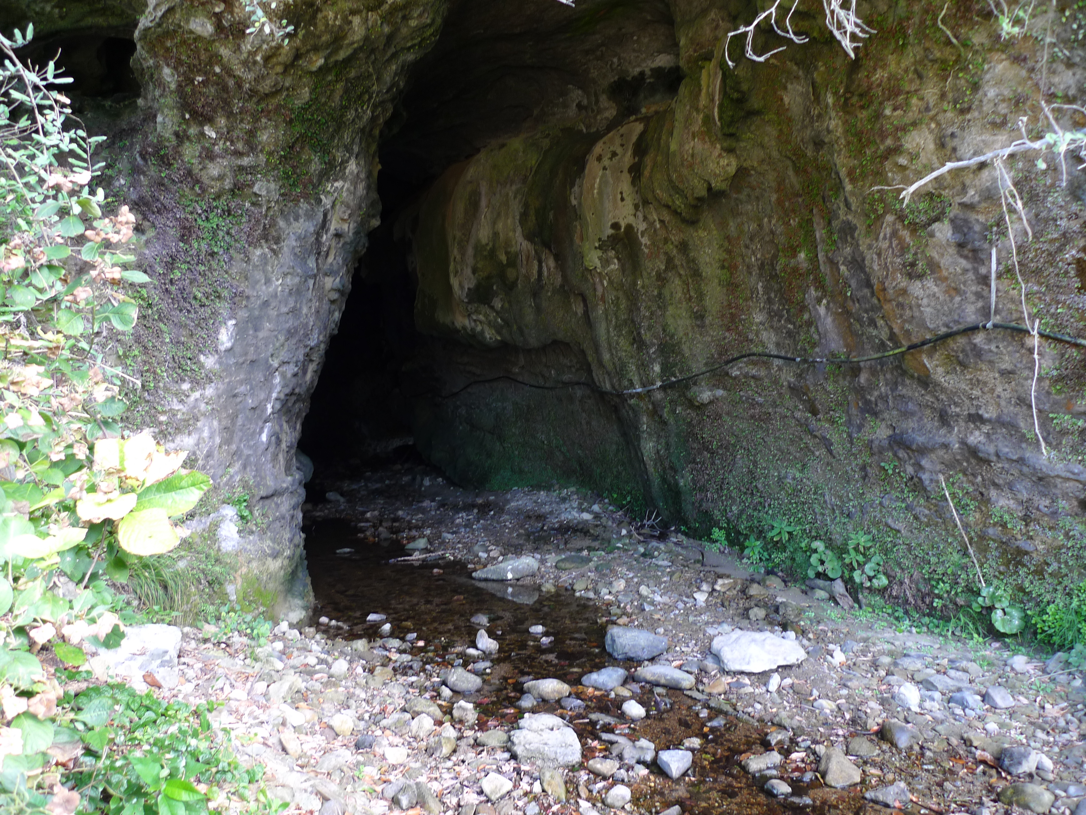 Iokido Cave, Aki city, Kochi pref, Japan.